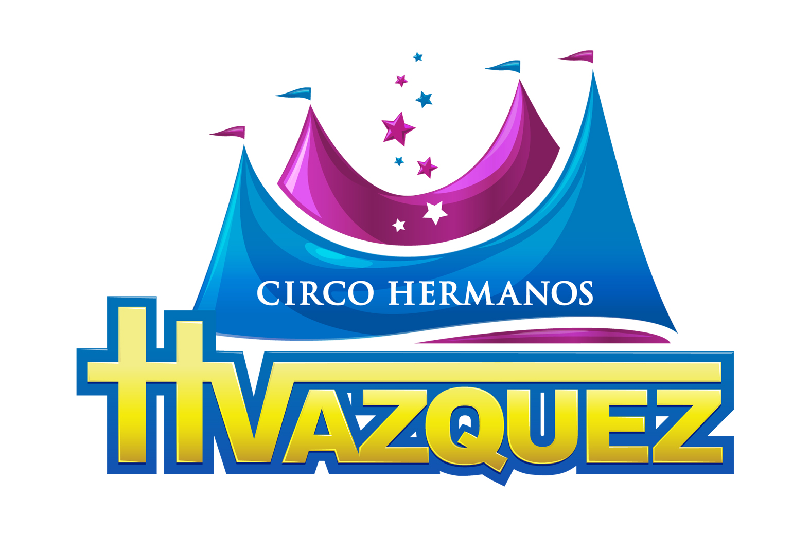 Logo actual del Circo Hermanos Vazquez, 2019